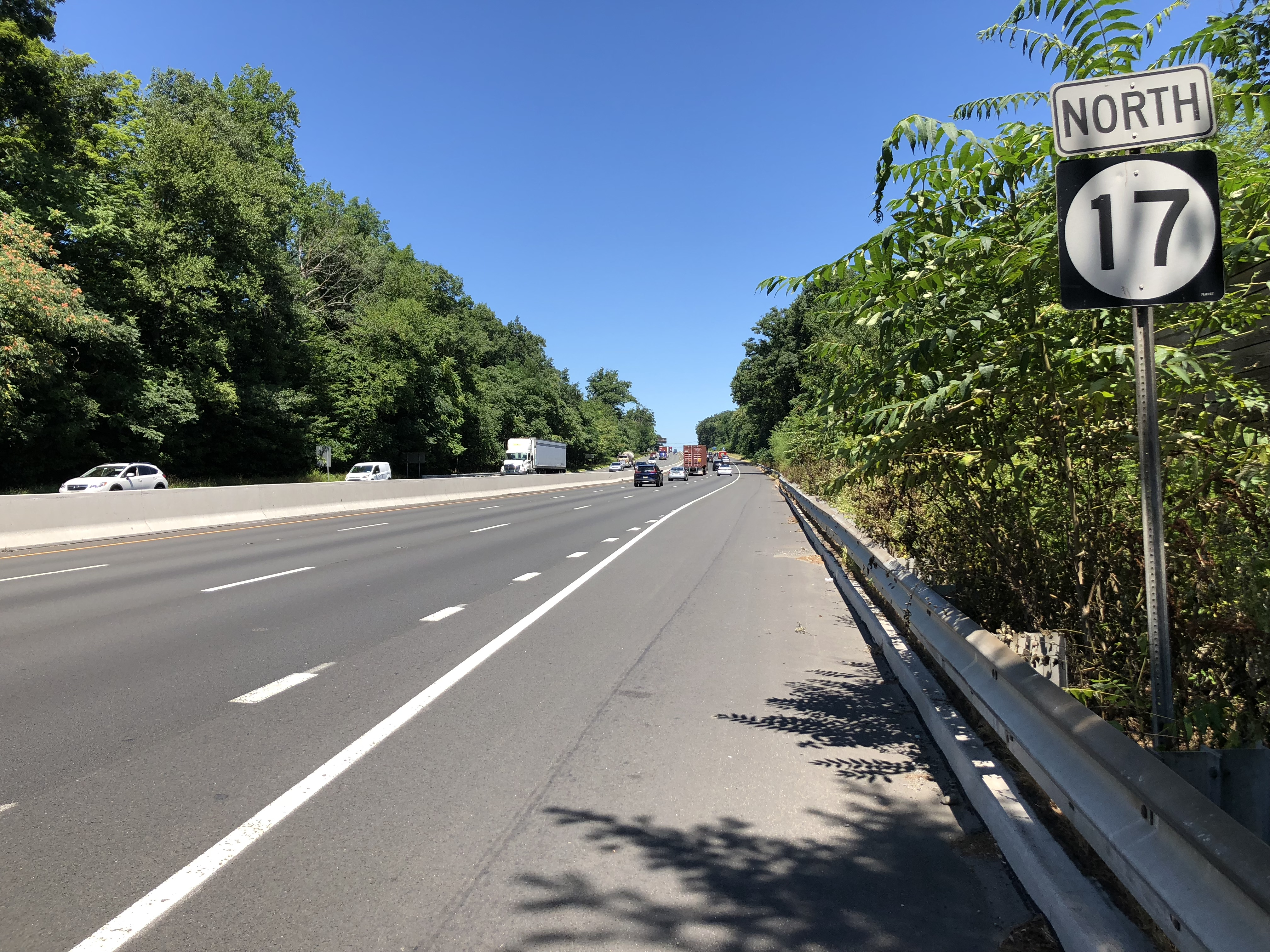 View north along New Jersey State Route 17 just north of Bergen County Route 90 (Allendale Avenue) in Saddle River, Bergen County, New Jersey